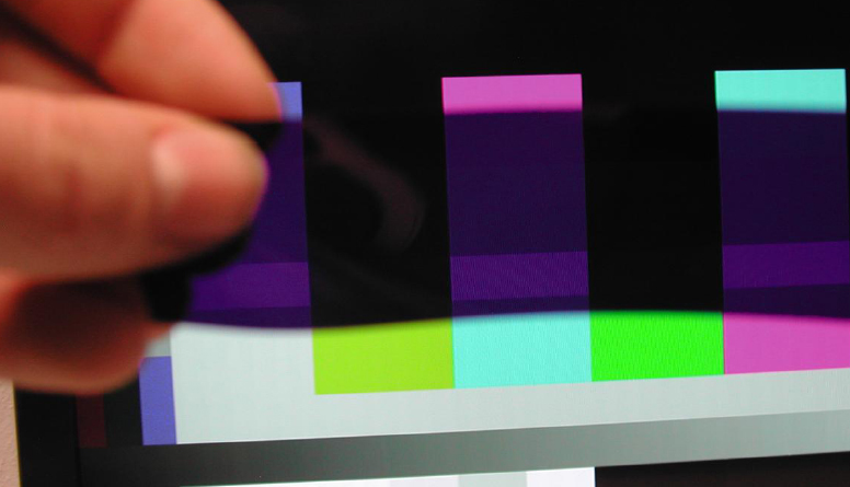 The Picture shows the usage of a color bar test pattern with a blue filter foil